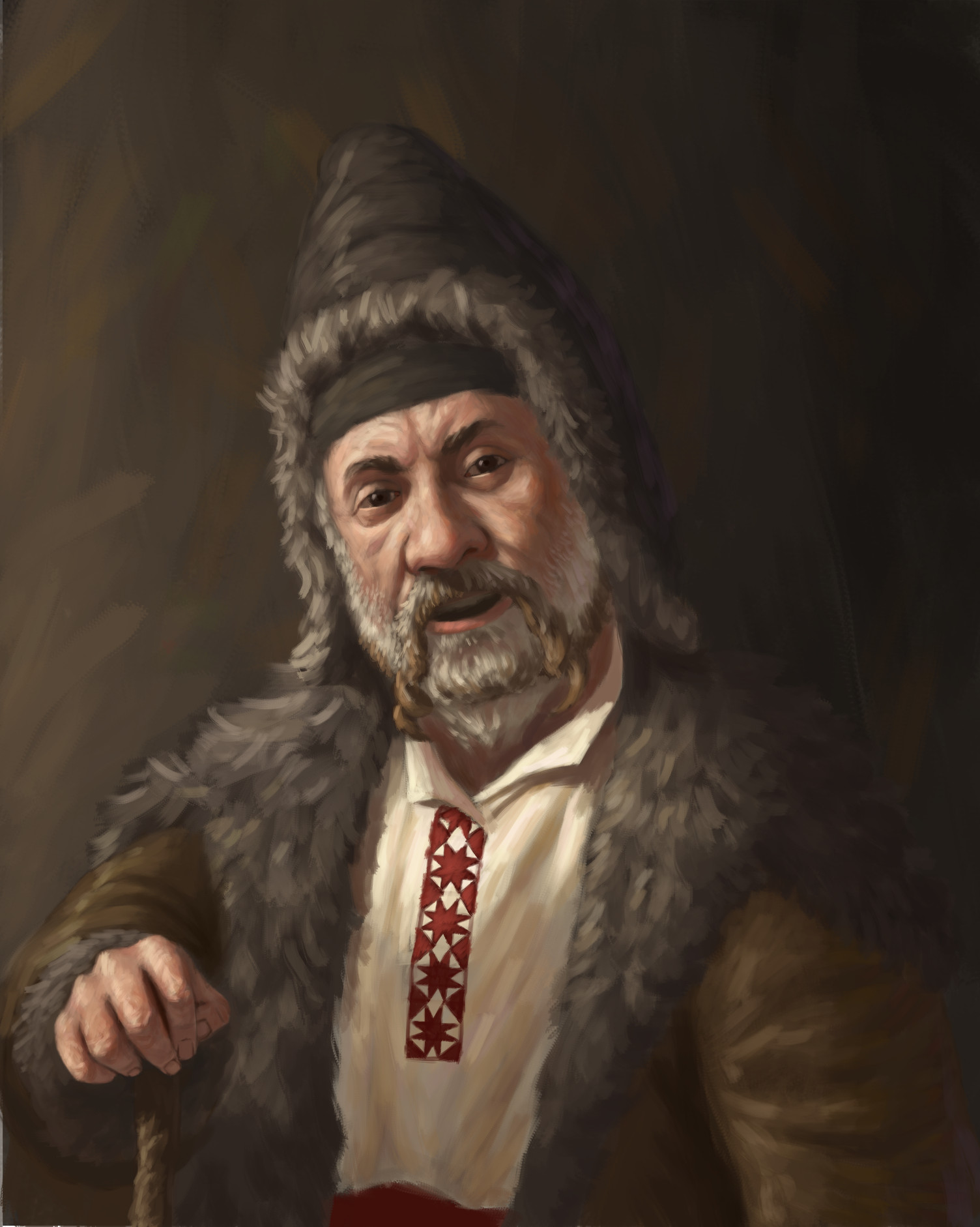 The wizard from the Belarusian mythology